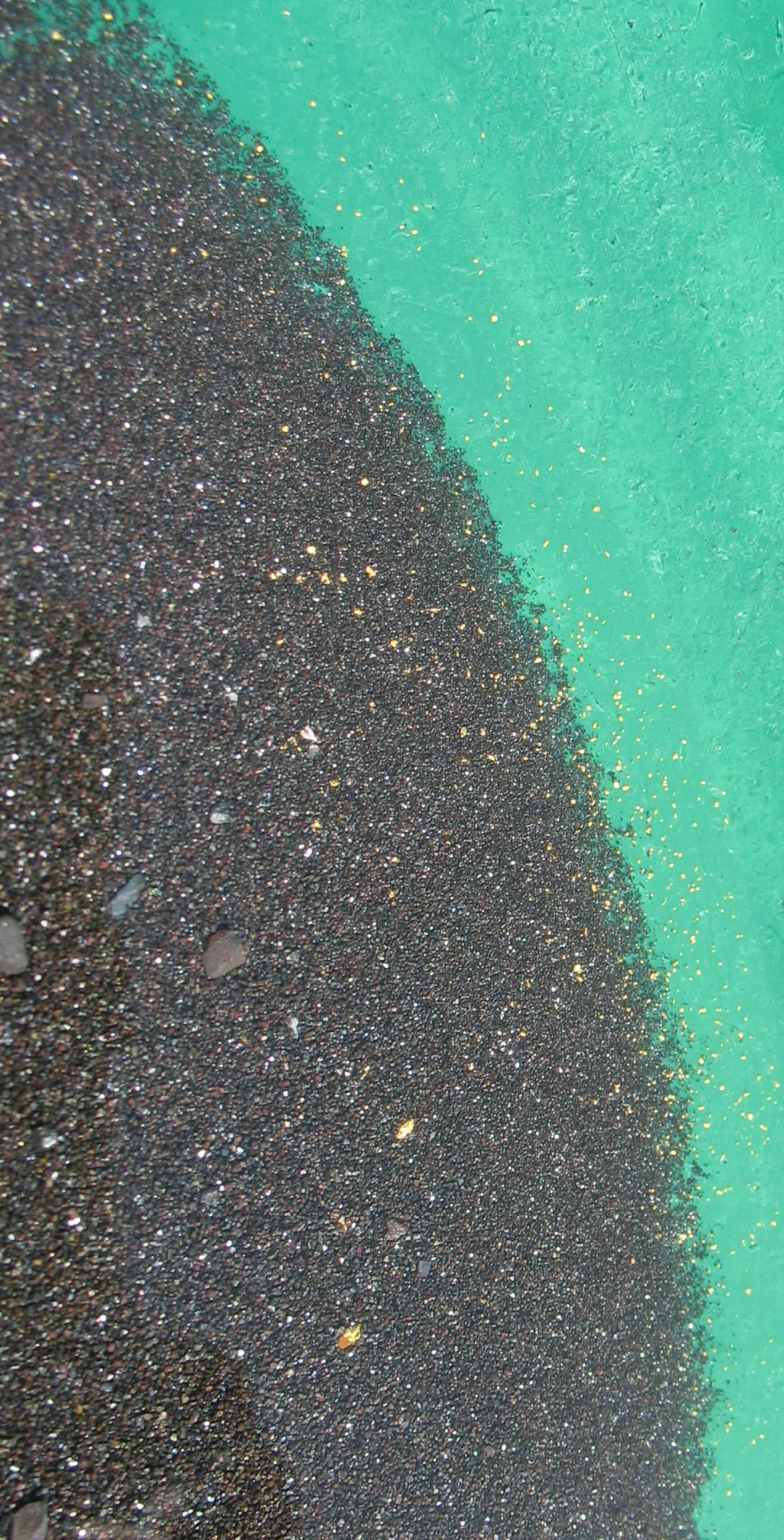 Magnetite, hematite and gold. Black sand concentrates from panning placer gravels.